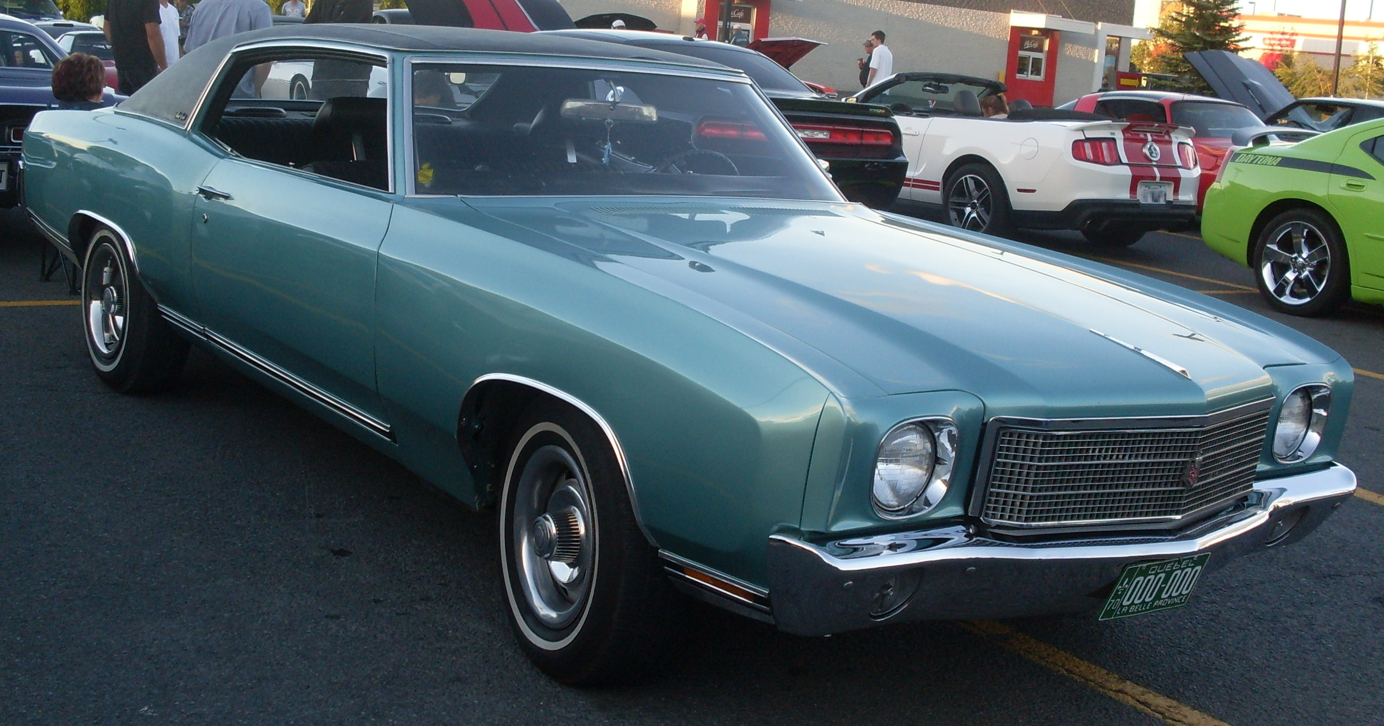 1970 Chevrolet Monte Carlo photographed in St. Constant, Quebec, Canada at Auto classique St-Constant 2013.